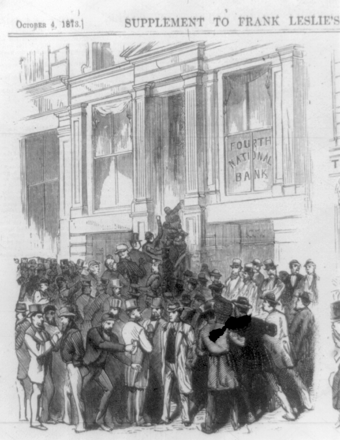 Title: The Panic - Run on the Fourth National Bank, No. 20 Nassau Street [New York City, 1873] Abstract/medium: 1 print : wood engraving.